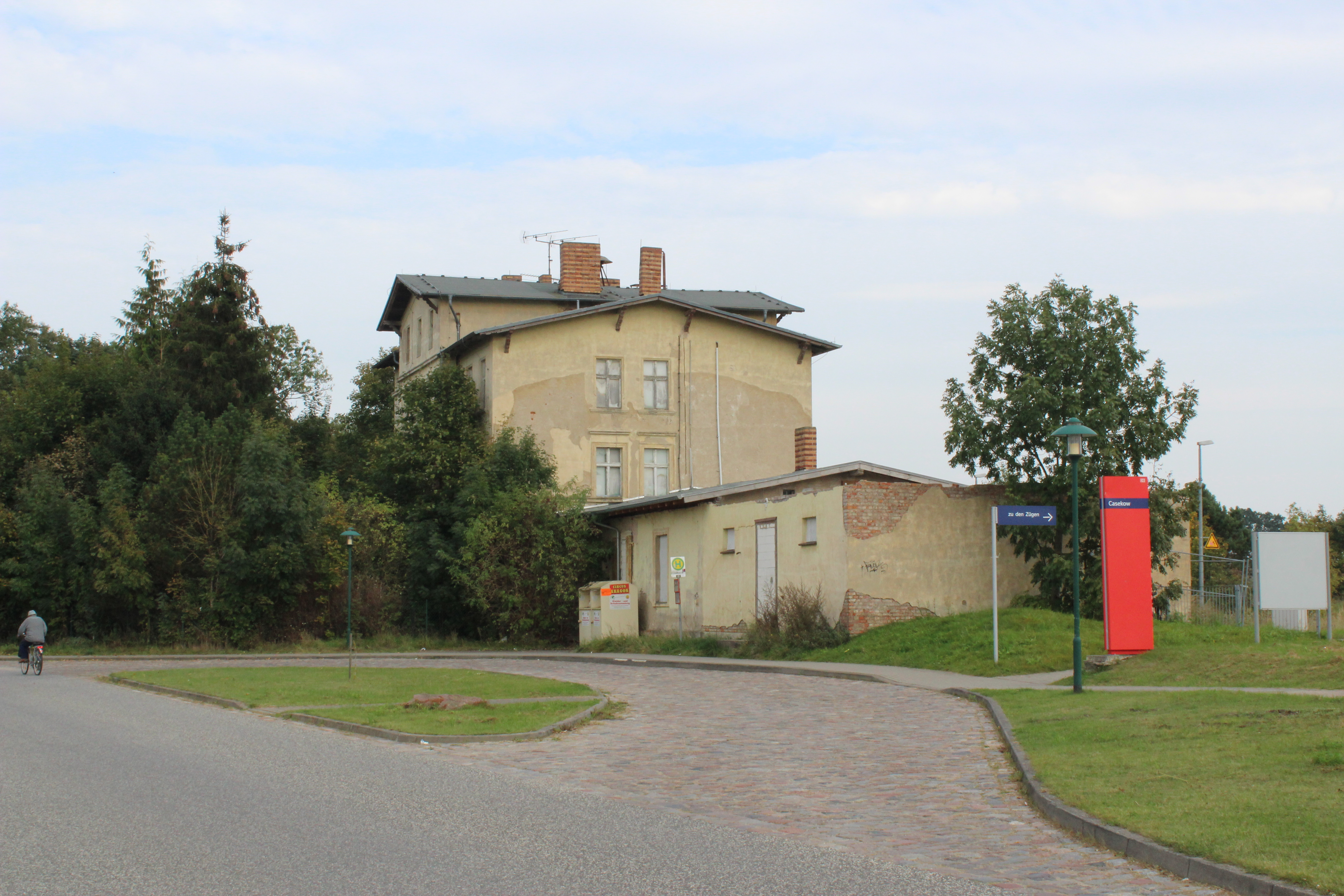 train station Casekow, station building, street side